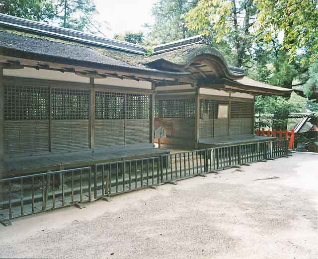 Izumo Takeo shrine in Isonokami Shrine Tenri Nara Prefecture Japan I took this photo